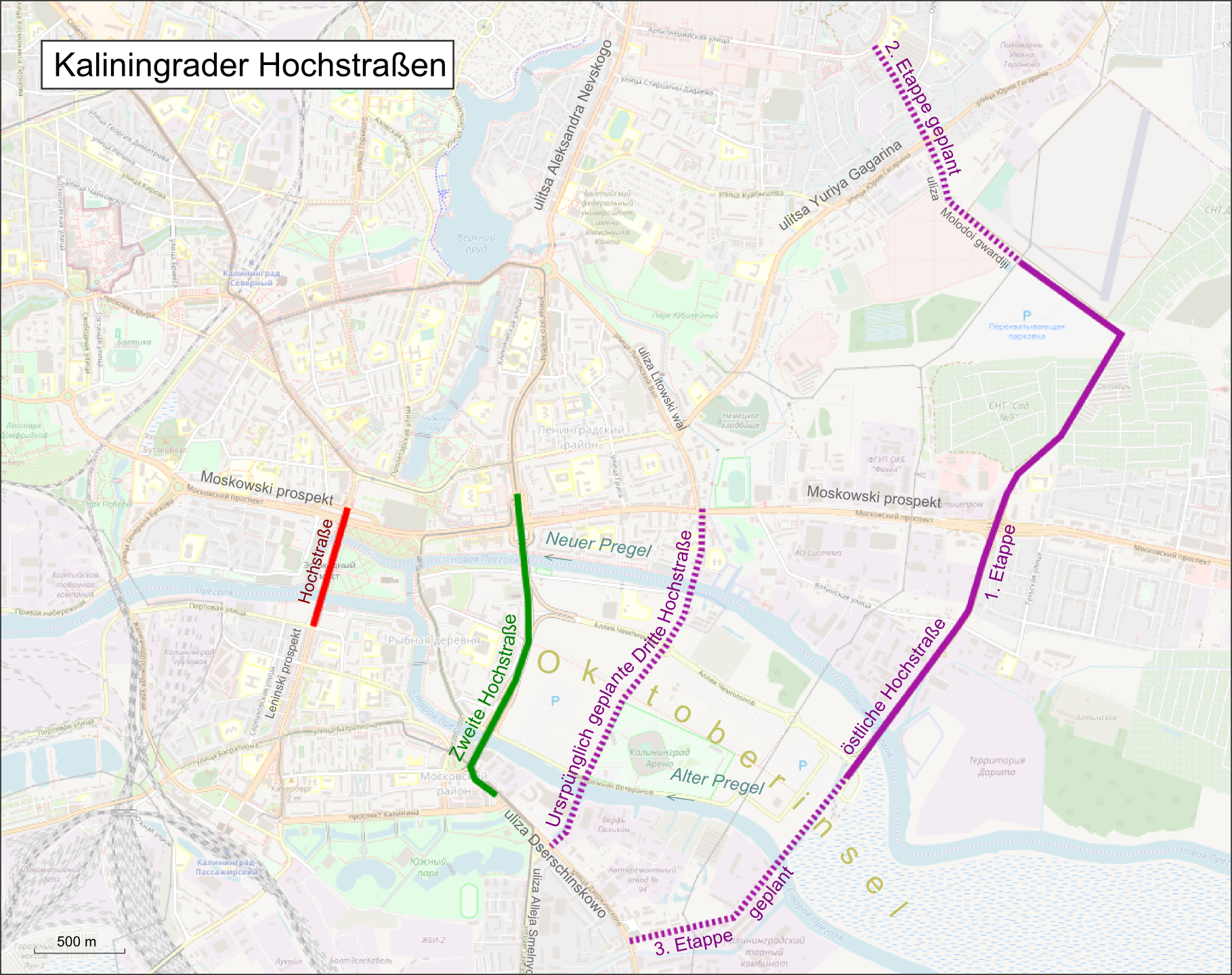 General map of elevated highways in Kalingrad. Status March 2019